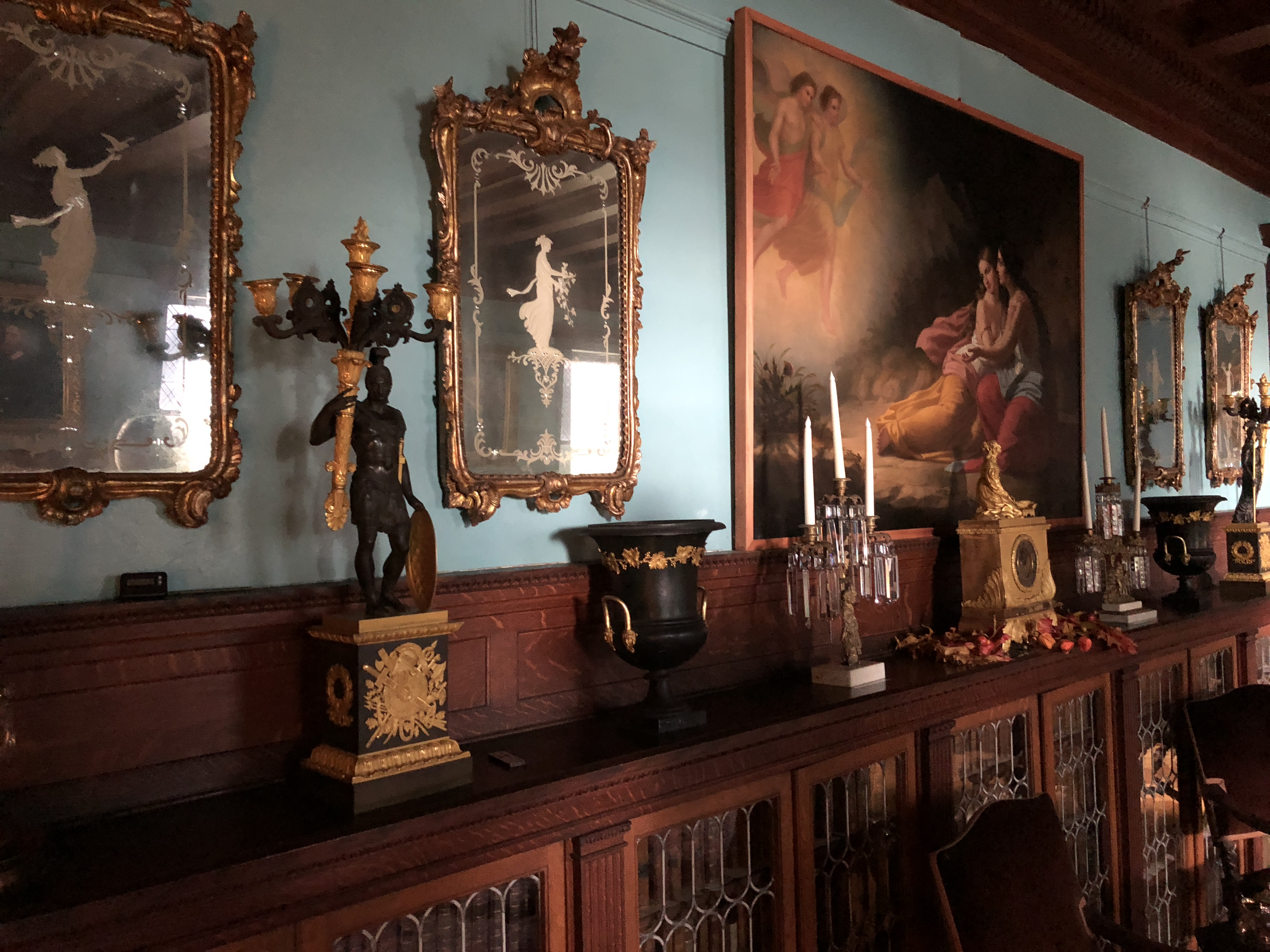 John Henry Livingston's addition.